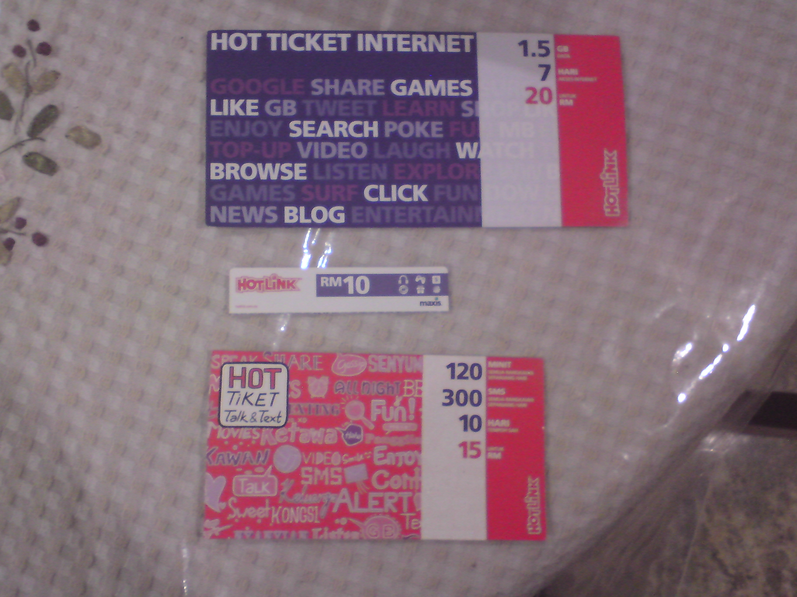 Maxis (Hotlink) prepaid top-up tickets.